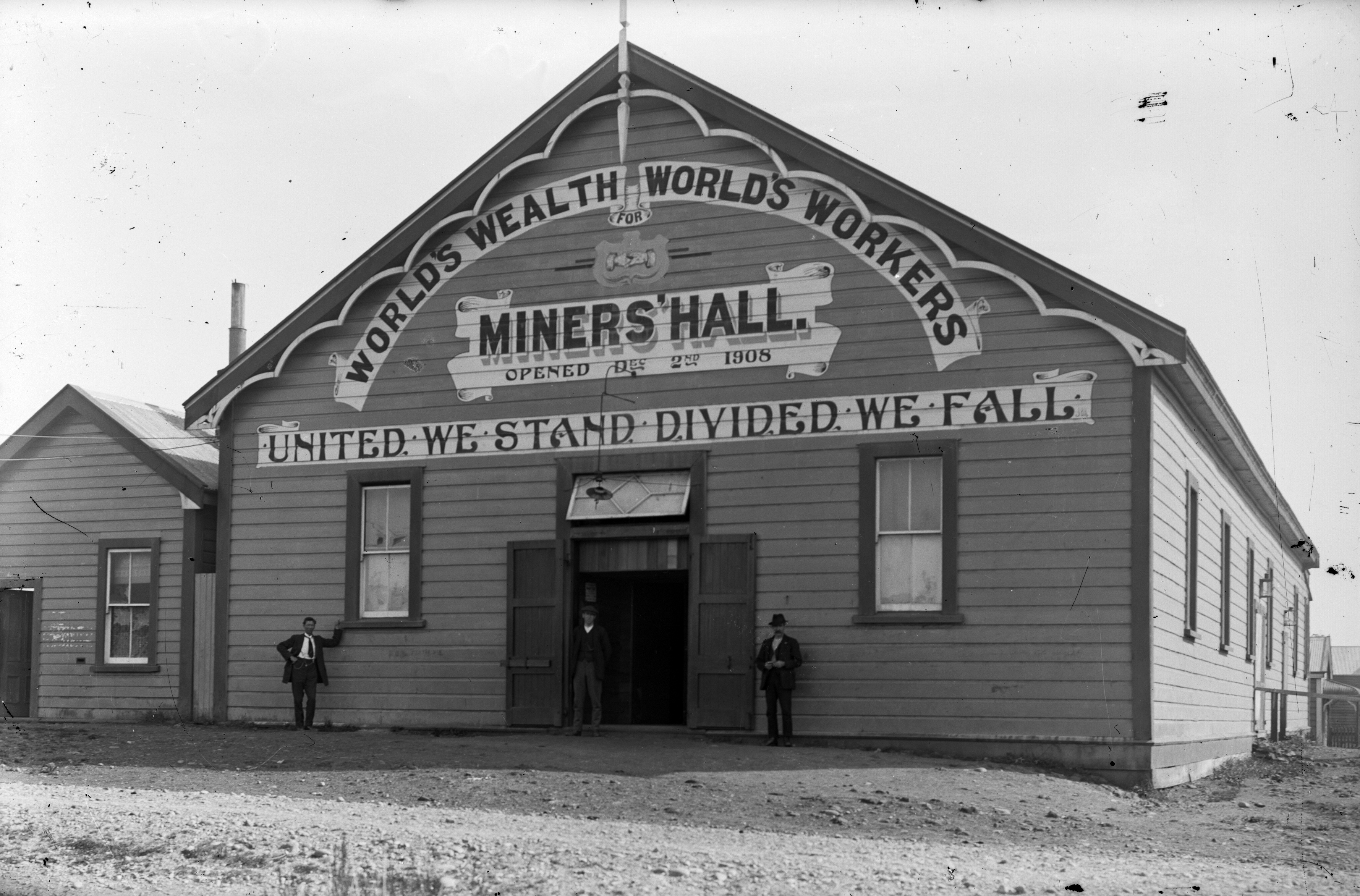 Photographer: Photographer: James Ring (1856-1939)[1] Miners' Hall, Runanga, ca 1910 Dry plate glass negative Reference No. 1/2-179351-G Photographic Archive, Alexander Turnbull Library, National Library of New Zealand